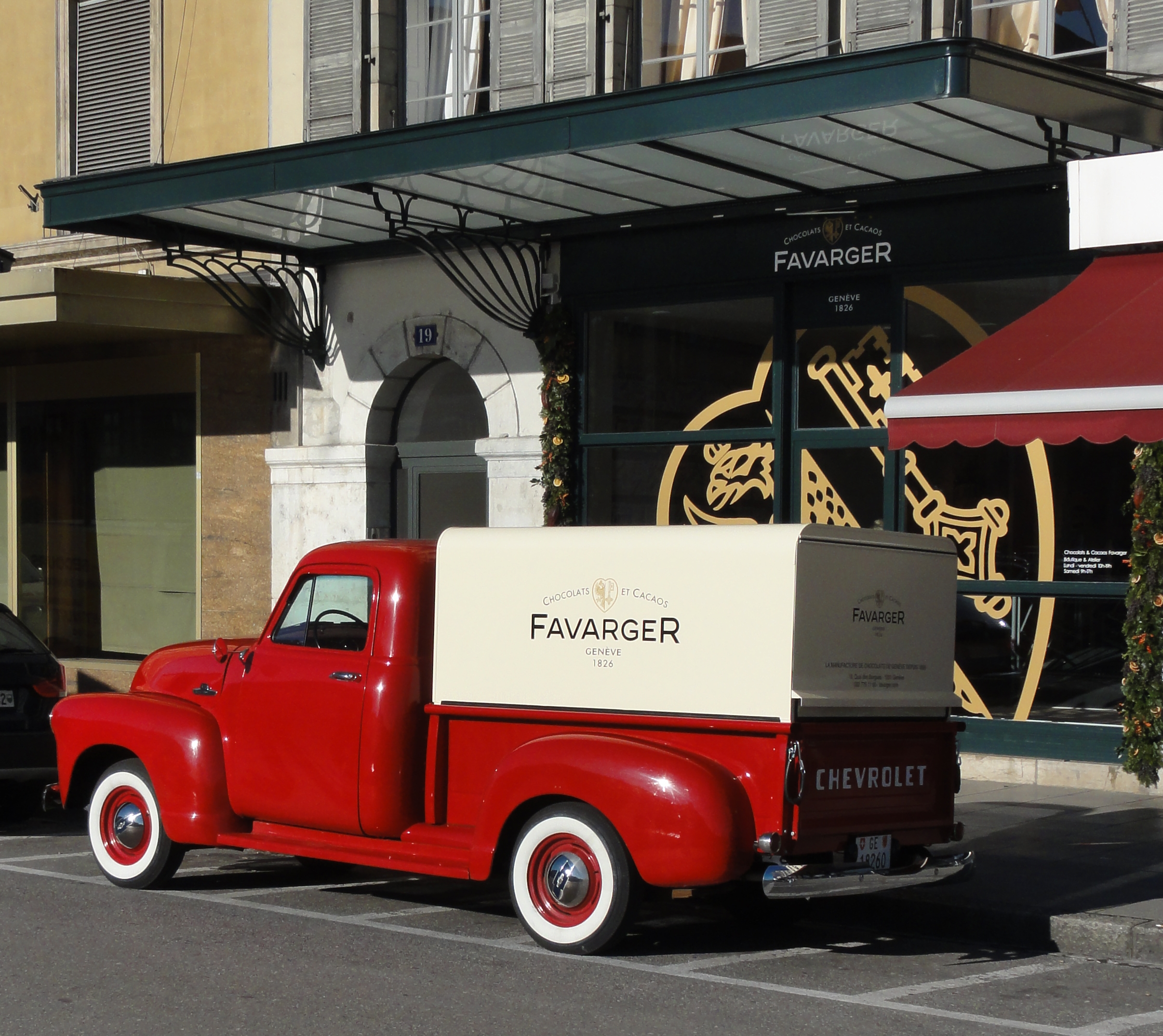 Favarger Antique Chevrolet Truck and the Boutique Favarger - 19, Quai des Bergues - Genève